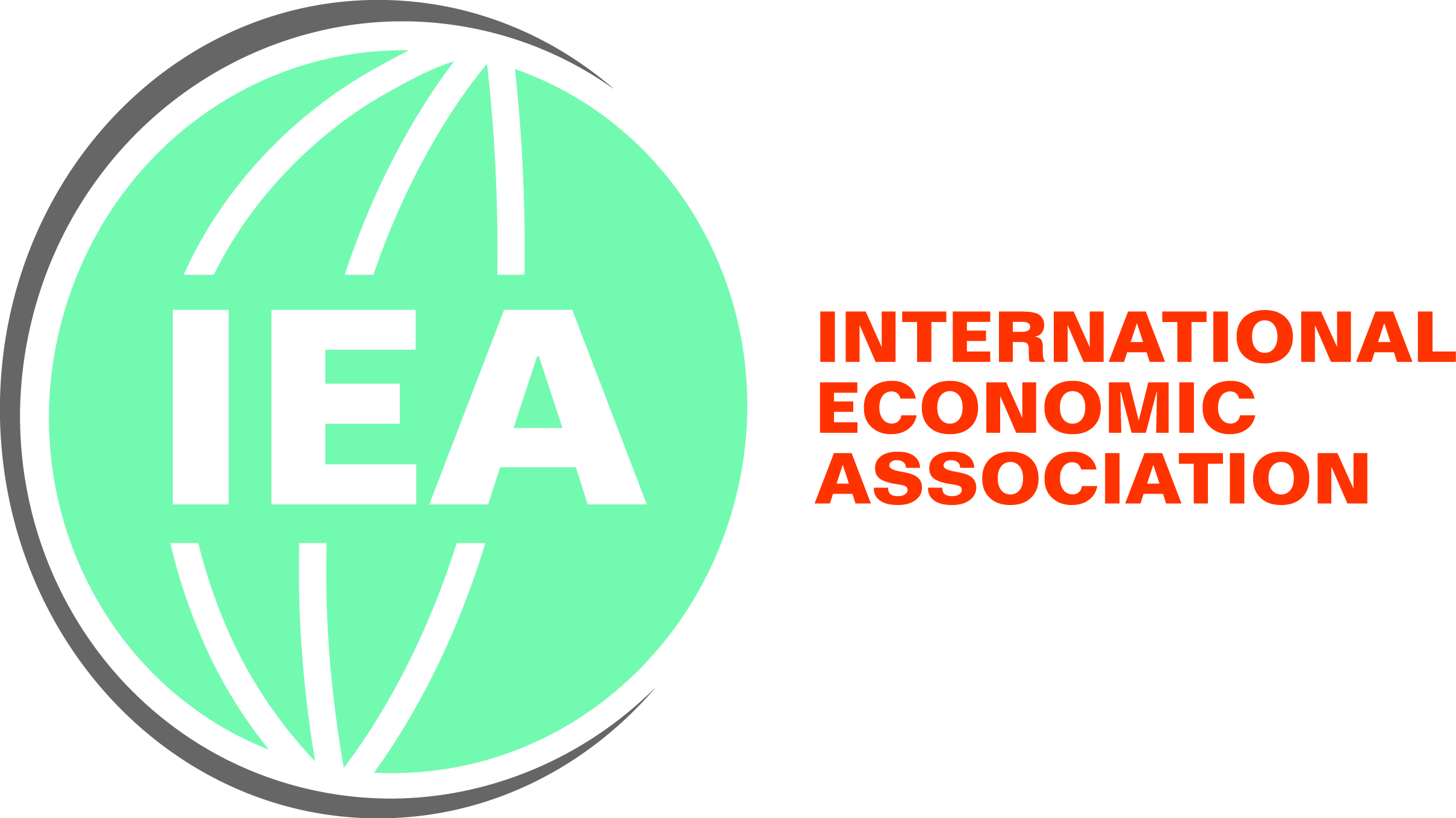 IEA logo